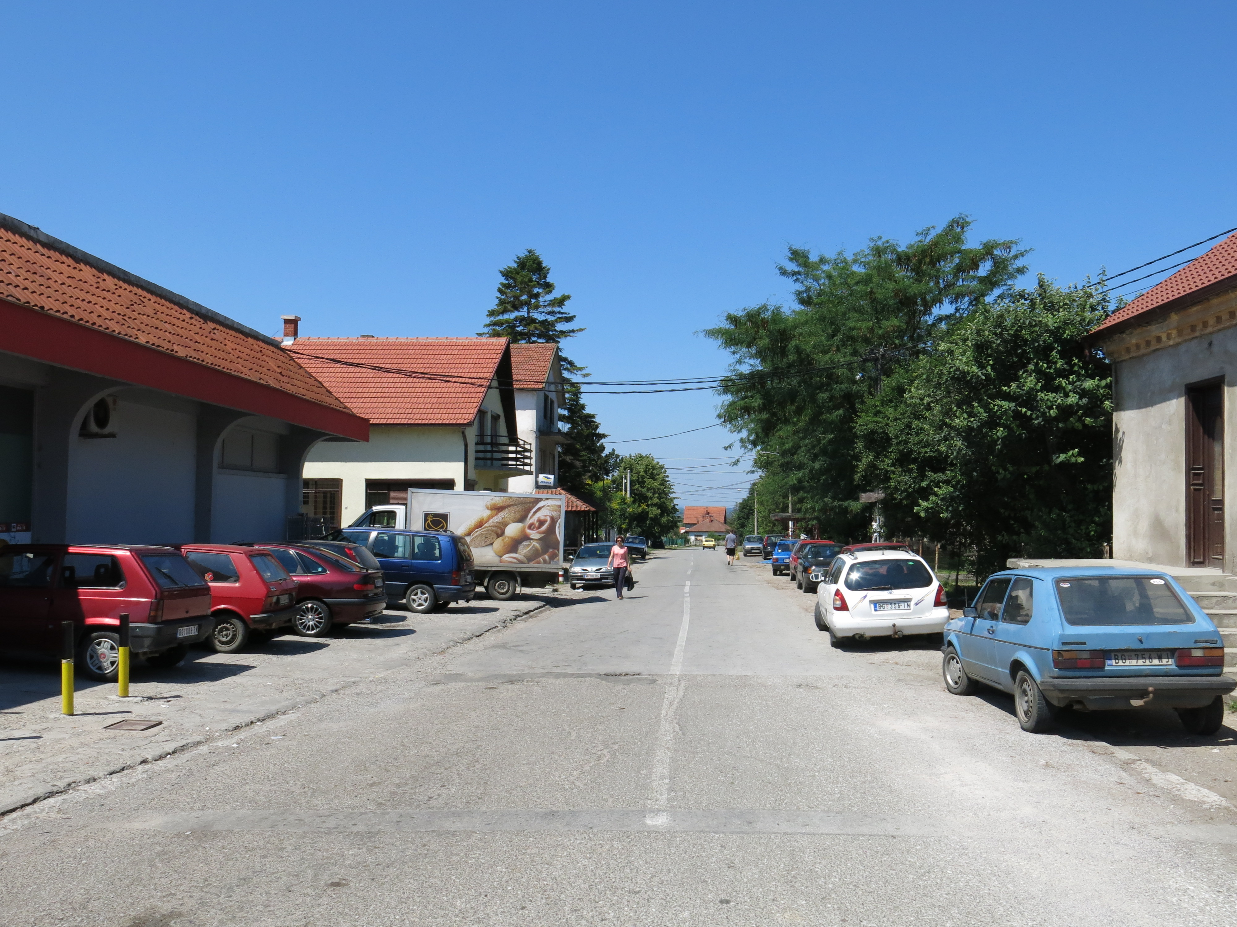 Stepojevac, Village center